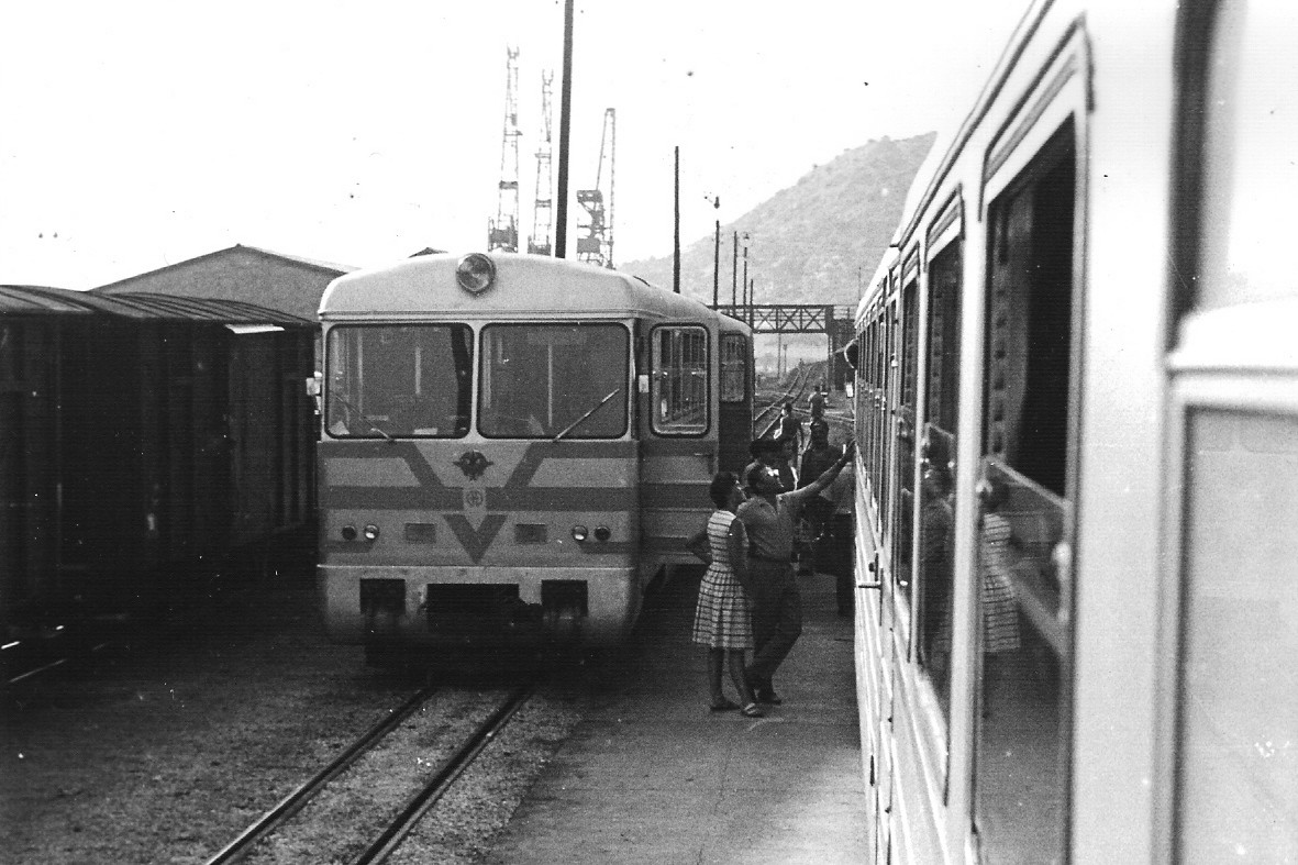 JŽ class 802 in Dubrovnik train station